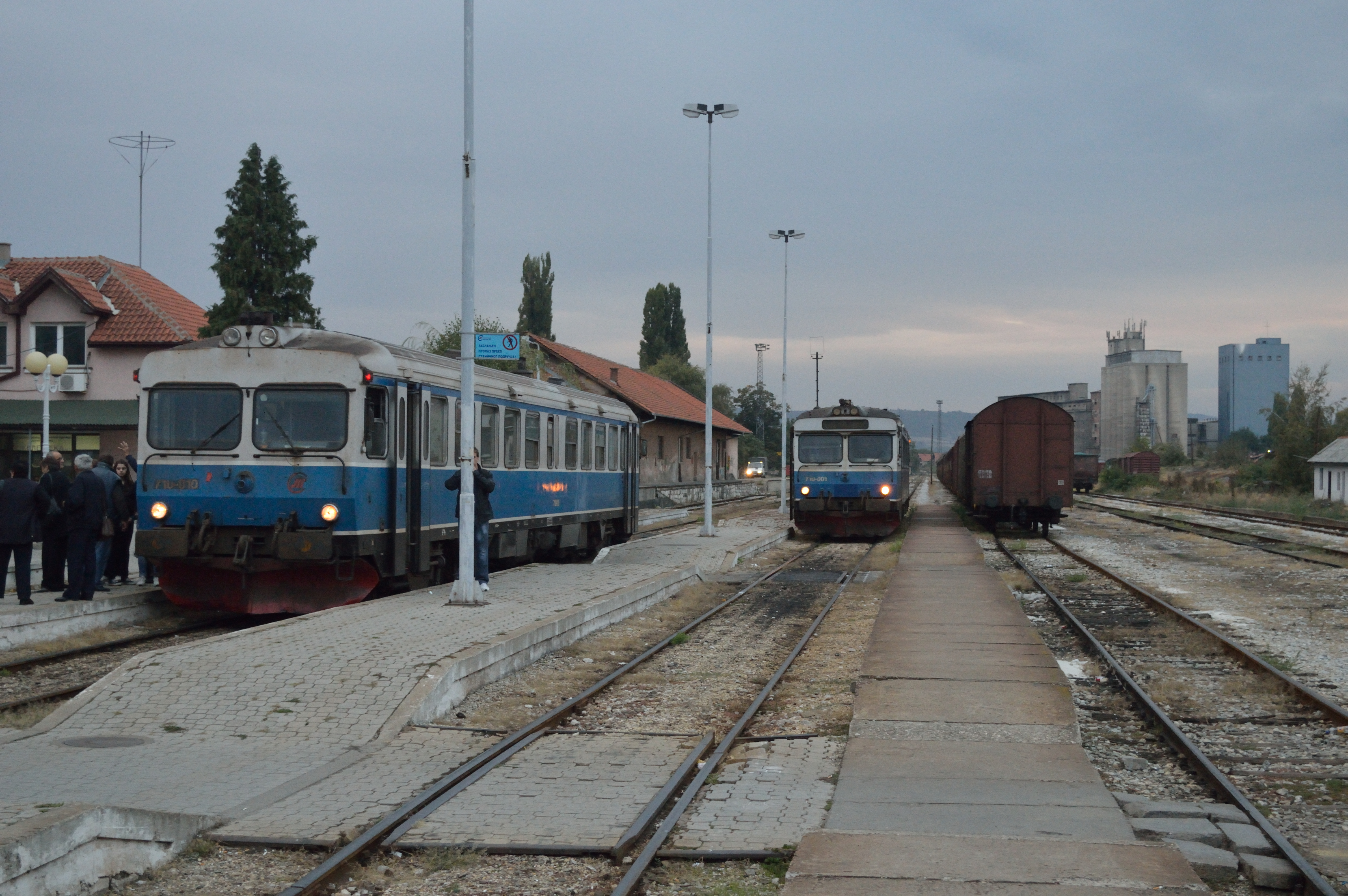 Balkans Rail Trip, Autumn 2013 - Day Five Early morning view at Zaječar station on 27 September 2013. Seen here are two out of the three trains timetabled to leave between 06:30 and 06:45. To the left 710.010 is first to leave on train 2770, 06:30 Zaječar to Prahovo Pristanište. To the right is 710.001 on train 2701, 04:00 Prahovo Pristanište to Niš booked to leave at 06:35. There was supposed to be a third train, 2750 06:45 Zaječar to Majdanpek which I was planning to take. However this train was cancelled and although I wasn't unable to understand the reason given due to the language difference, I assumed it was due to no railcar being available. Zaječar is the last "stronghold" for these ex-SJ single cars built in 1979 and 10 were purchased by Serbian Railways during the early 2000s. However it appears reliability is poor, internally they are in a much worse condition than they were before leaving Sweden! As a result of learning the news at 06:32, I quickly jumped on train 2701 and travelled to Niš. This meant I missed out on best part of 100 kms of line with no opportunity to cover it that day.